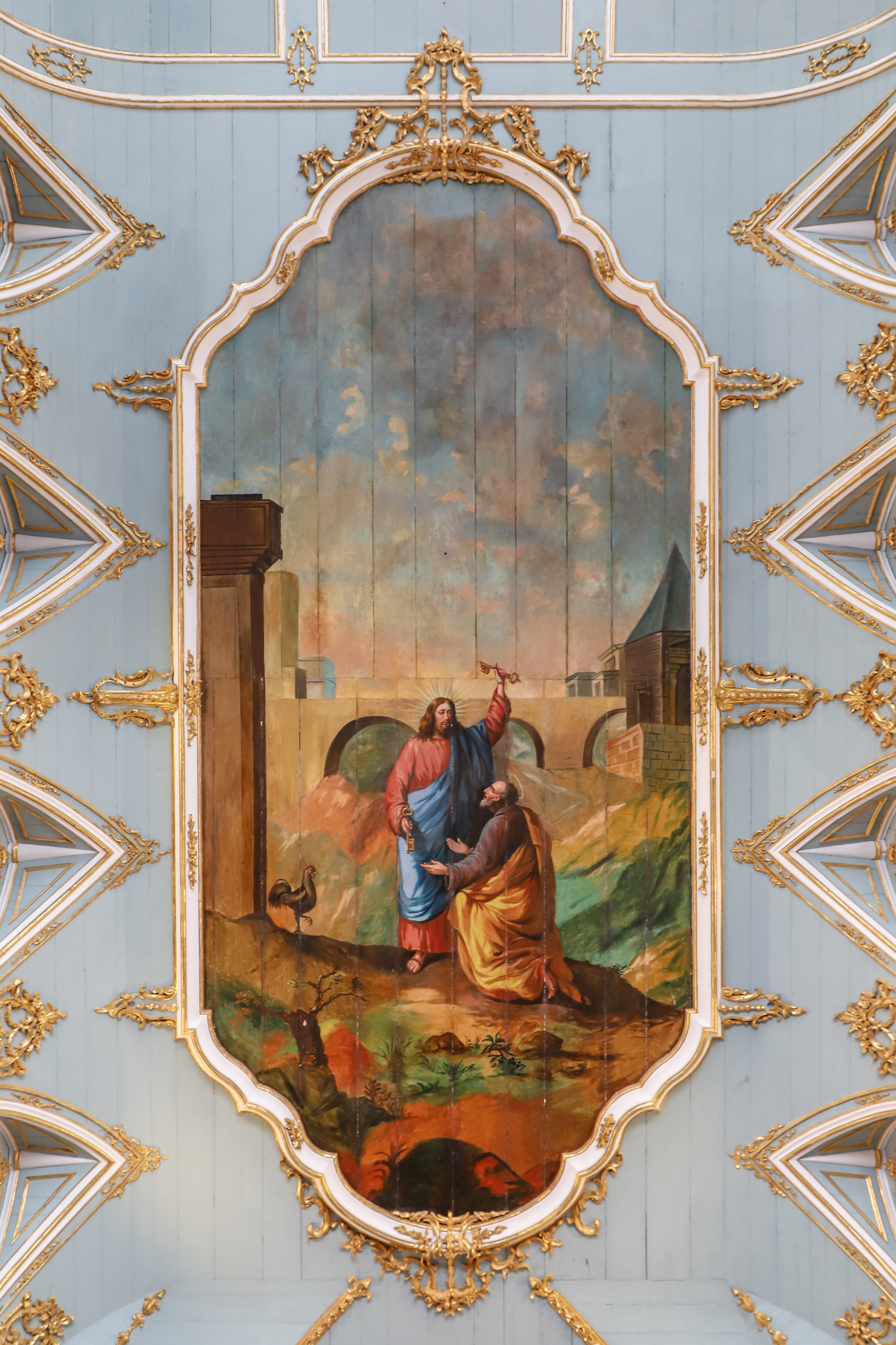 Painting of ceiling of nave, Igreja de São Pedro dos Clérigos (Church of Saint Peter of the Clergymen), Salvador, Bahia, Brazil.